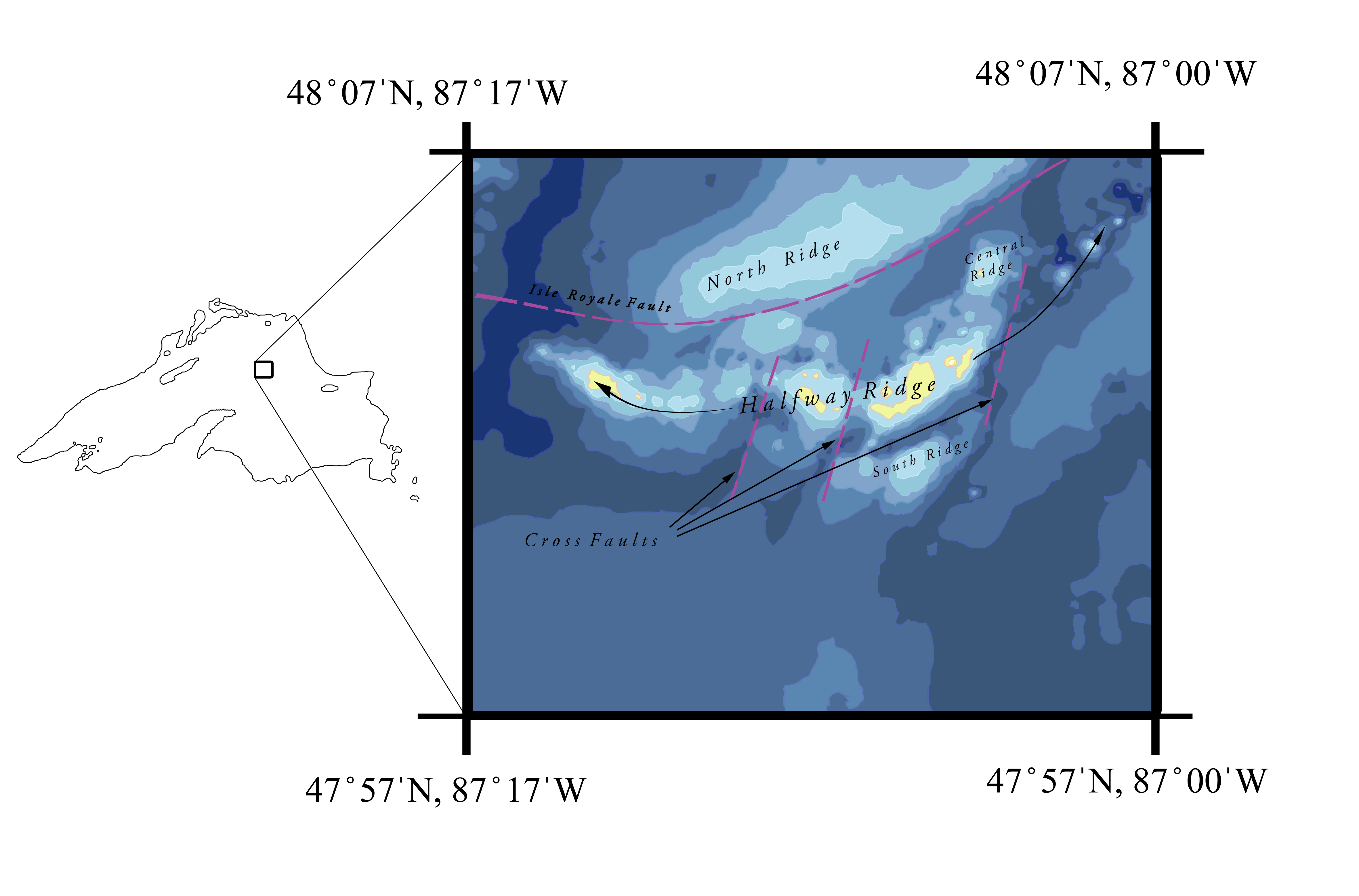 Bathymetric map of the Superior Shoal in 20m isobaths and showing the location of the four geologic ridges and one fault line that make up the shoal